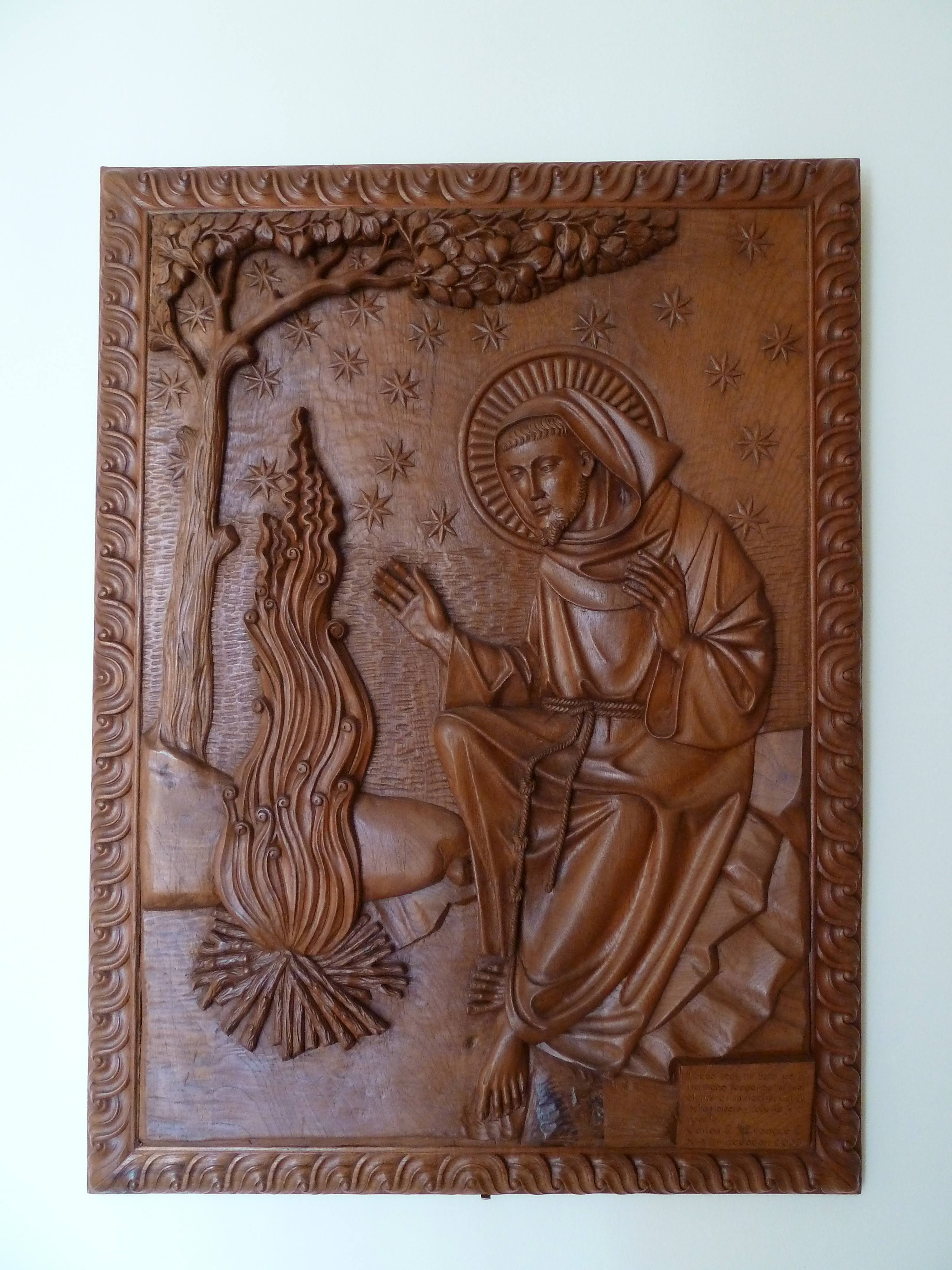 OFM General Curia : Laudes Creaturarum